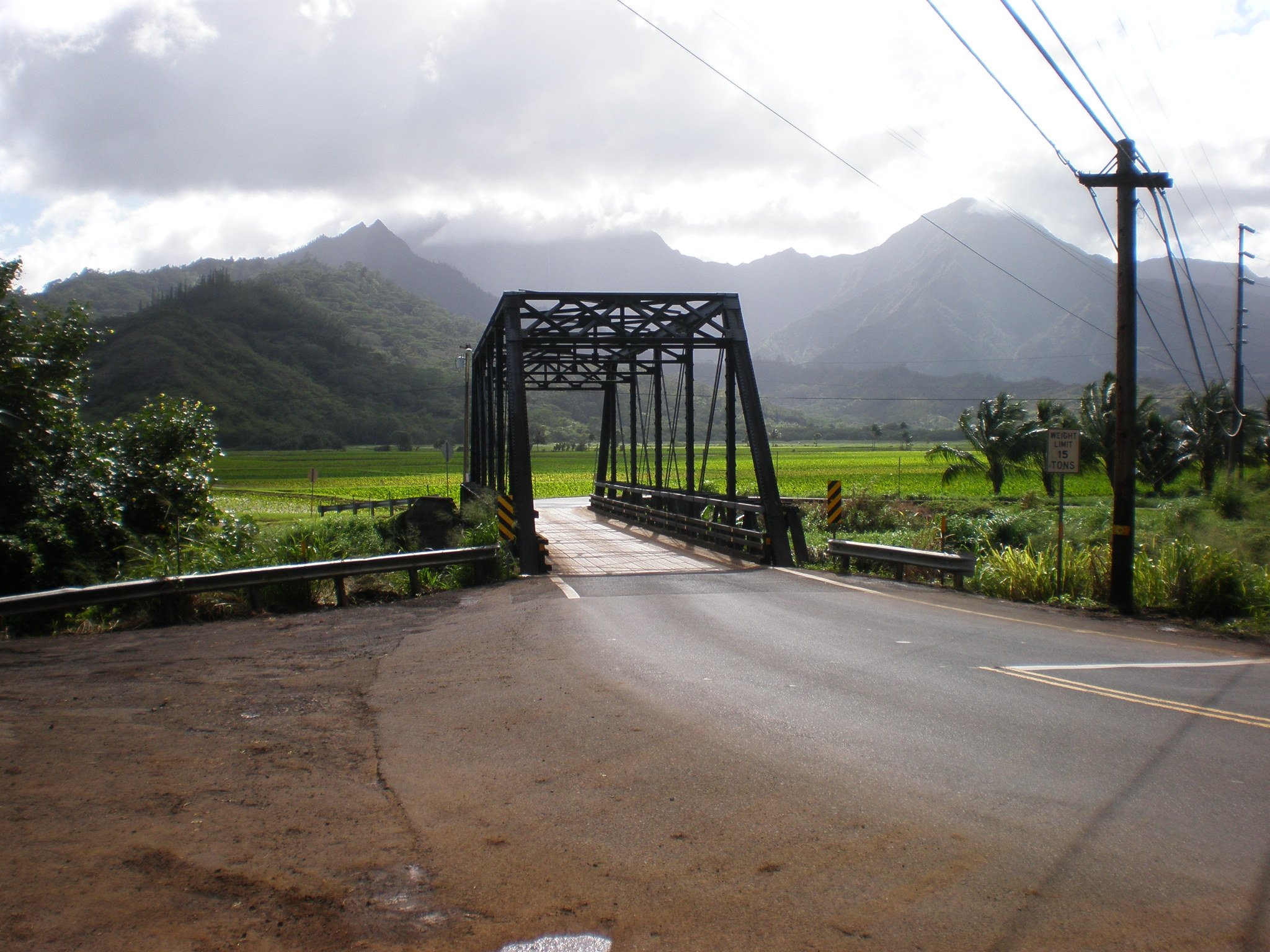 Hanalei Bridge on North Shore section of Kauai Belt Road, Hawaii Route 560, Kauai, on National Register of Historic Places